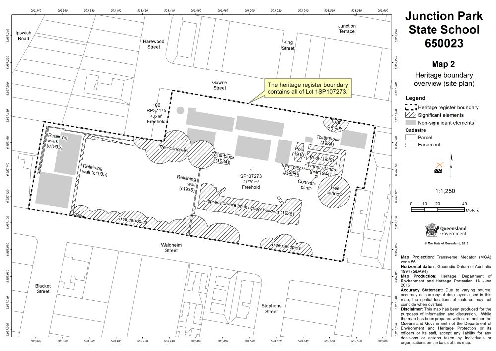 650023 Junction Park State School map 2 (2016)